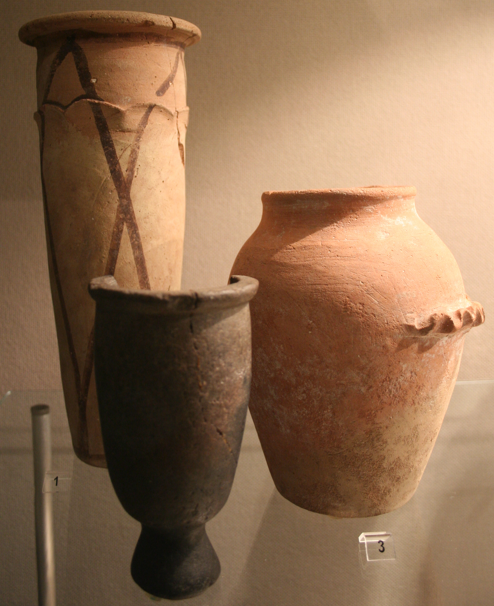 Vessels from the predynastic period (4th millennium BC)